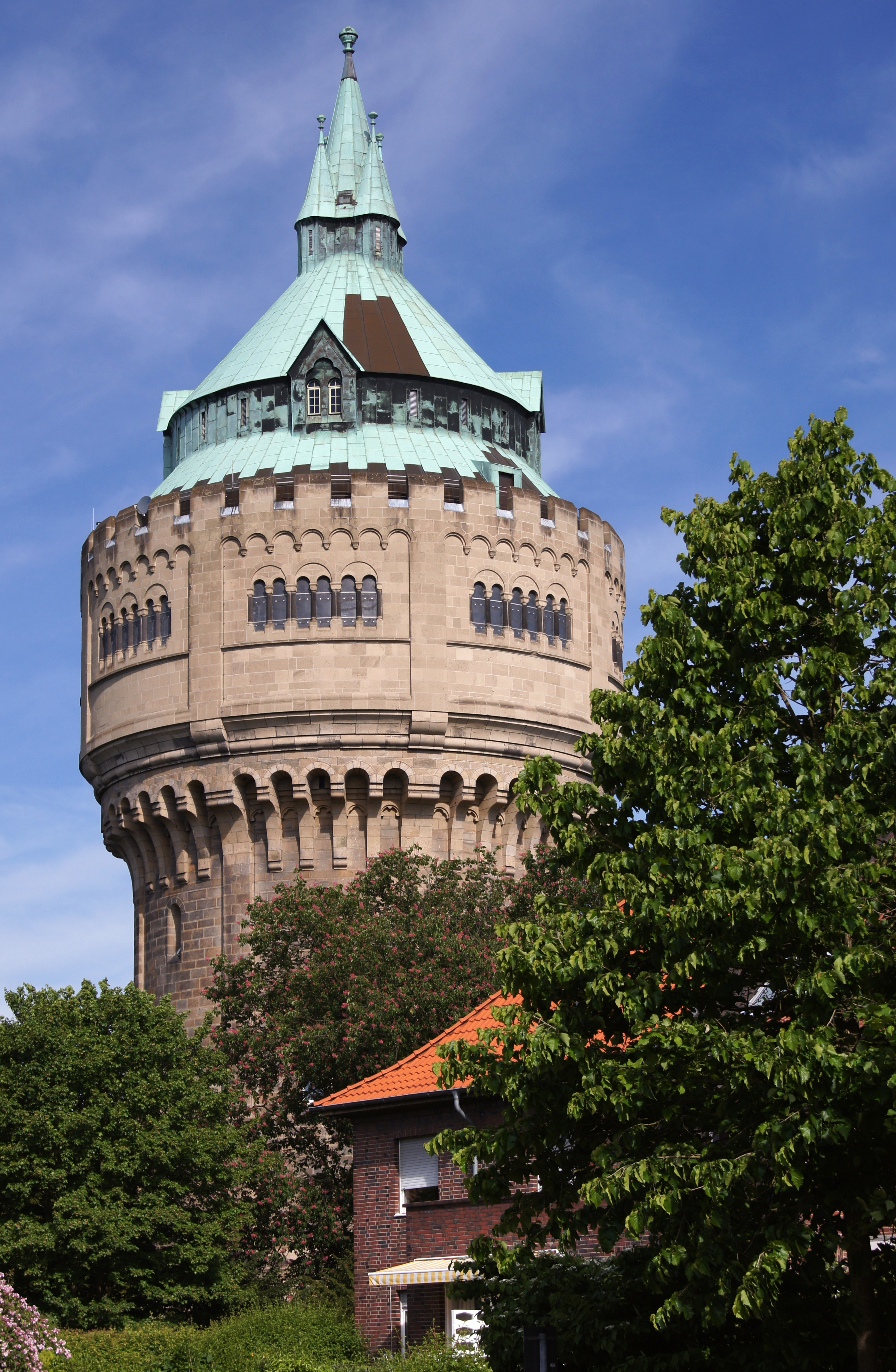 The water tower "Auf der Geist" in Münster, Westphalia. The water tower was build from 1900 to 1903. The architects were Merkens and Drießen.